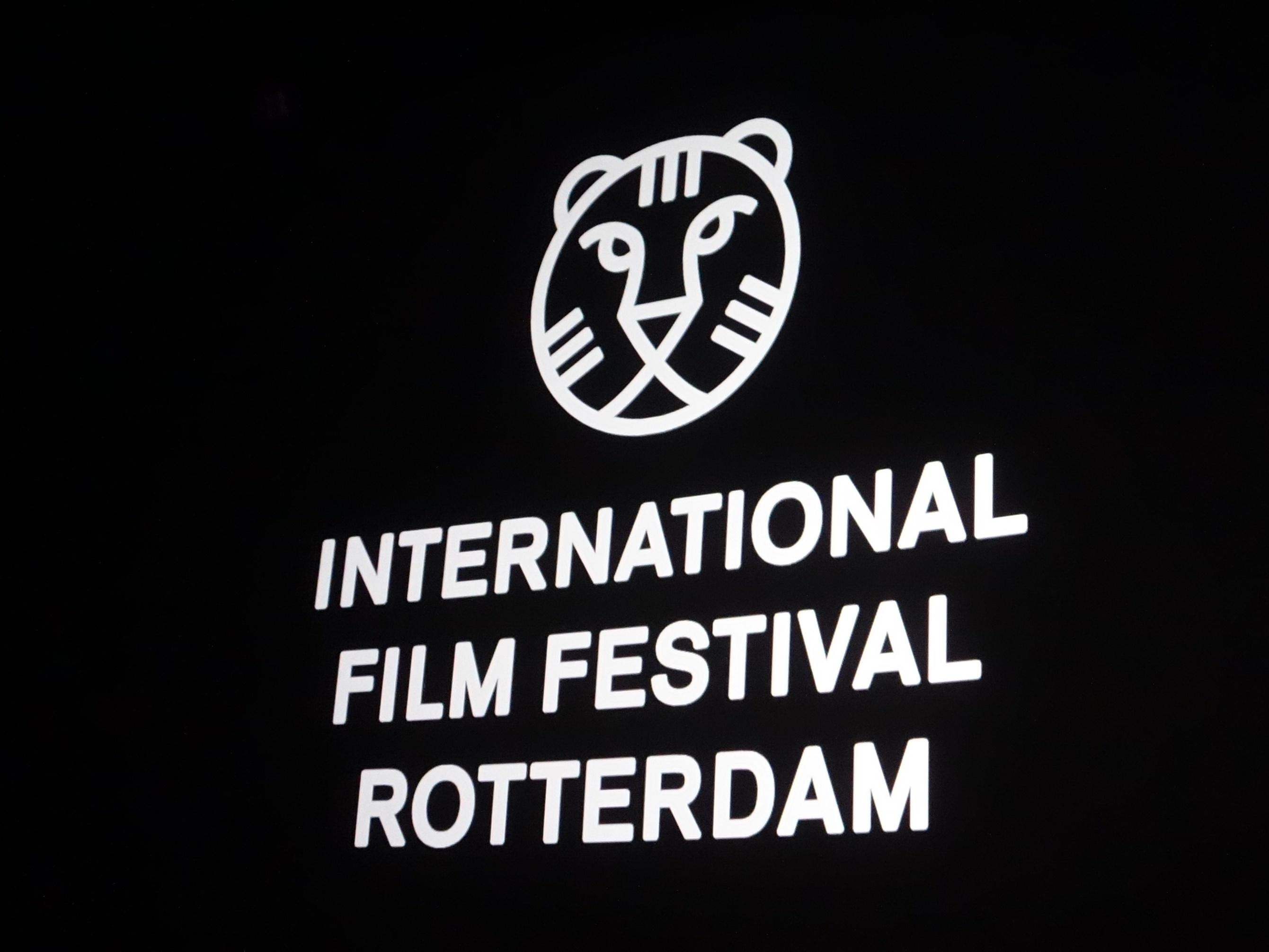 Logo IFFR in 2017